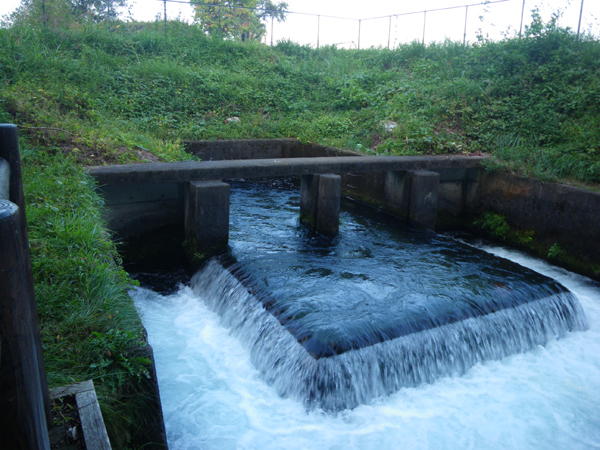 Nasu-sosui canal Sabigawa siphon. Nasushiobara, Tochigi, Japan.